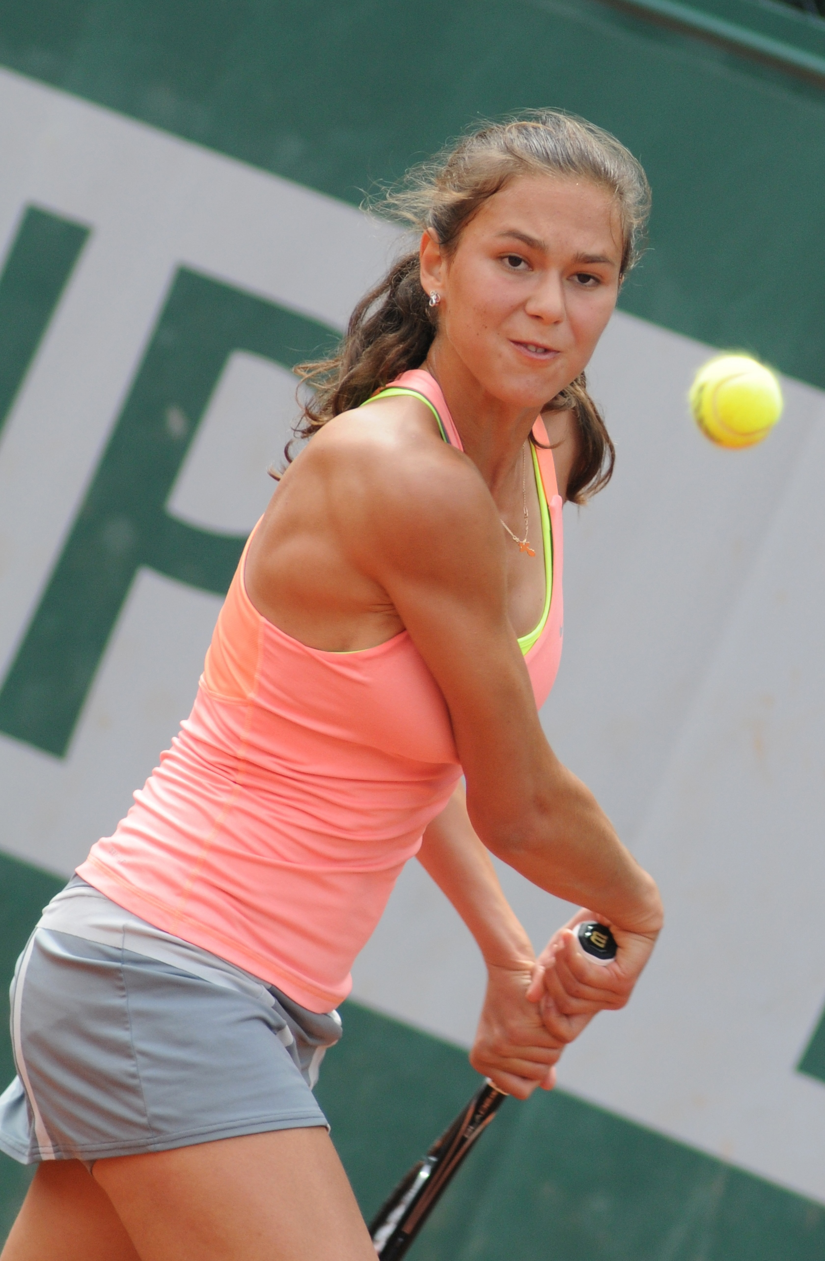 Natalia Vikhlyantseva at the 2014 French Open